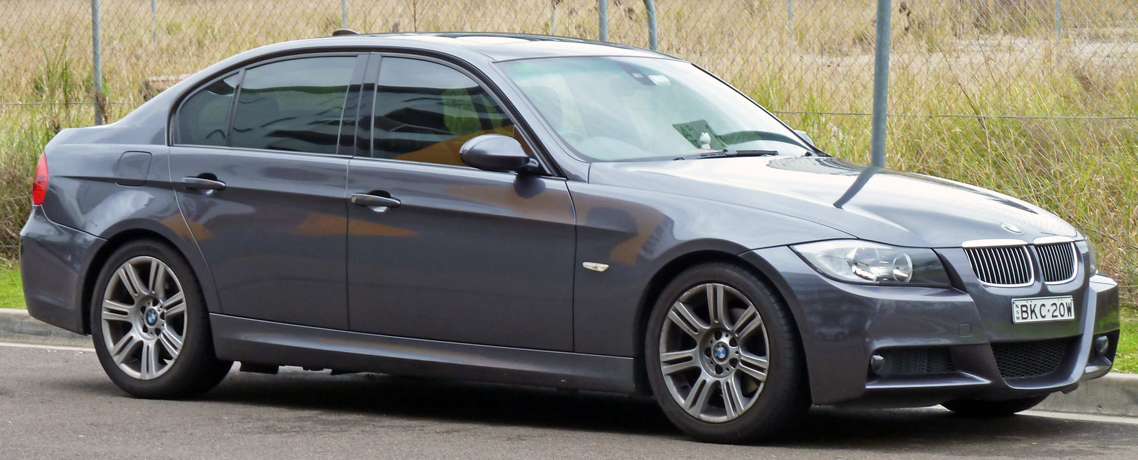 2005–2008 BMW 325i (E90) sedan. Photographed in Zetland, New South Wales, Australia.